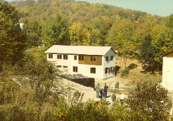 Holiday-house of high school in Bükkszentkereszt